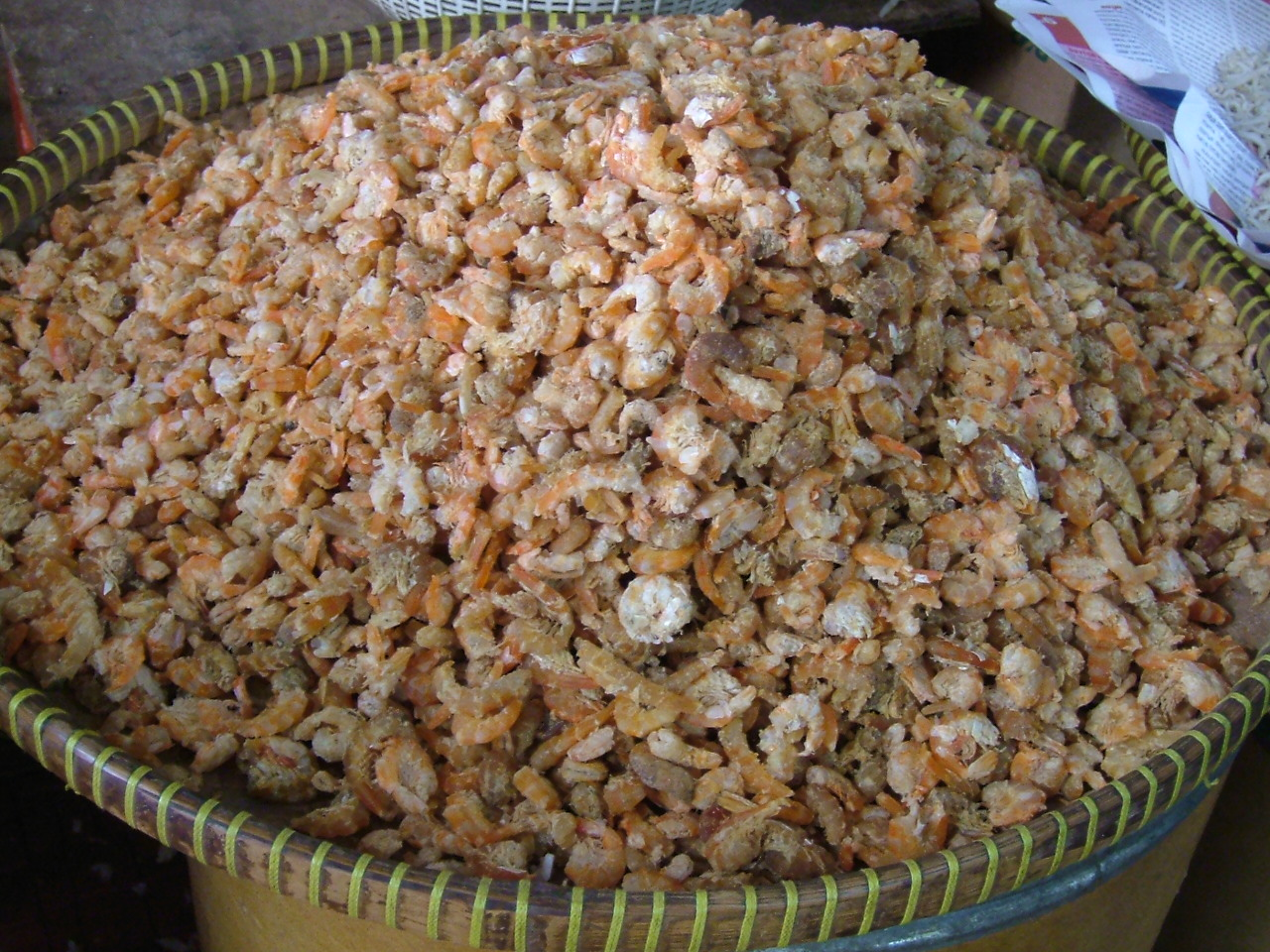 Dried shrimp. Picture taken at traditional market in northern Jakarta.